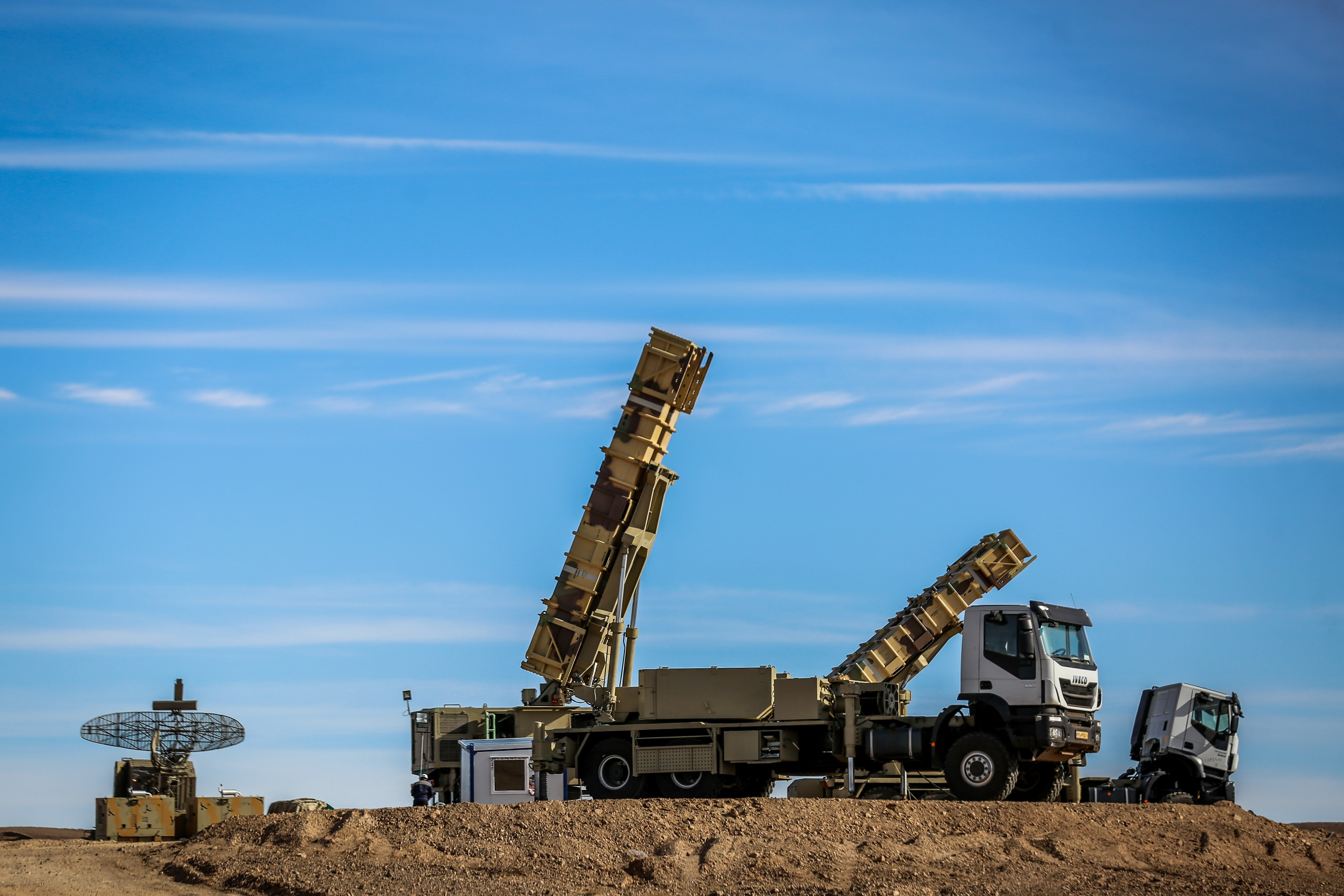 Talash SAM system test